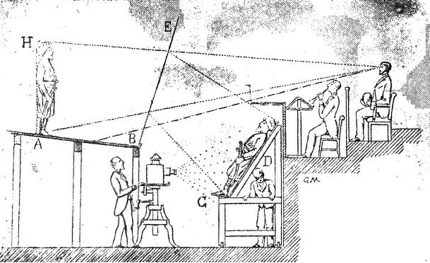 Étienne-Gaspard Robert's ghost illusion explanation